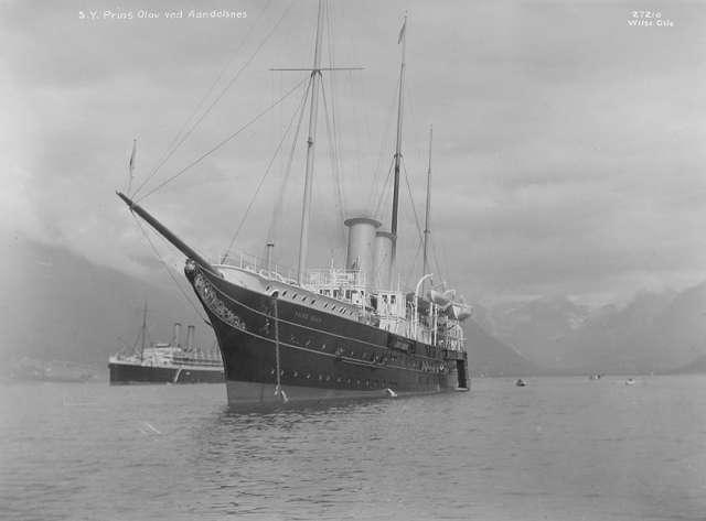 Norwegian passenger ship SS Prins Olav in Åndalsnes. This ship is the former British royal Yacht Alexandra built in 1908 and sold to the Norwegian shipping company NFDS in 1925. After a complete rebuild, she sailed in the coastal express service (Hurtigruten) from 1937 to 1940. Photo is taken during a cruise to Nordkapp in 1925.